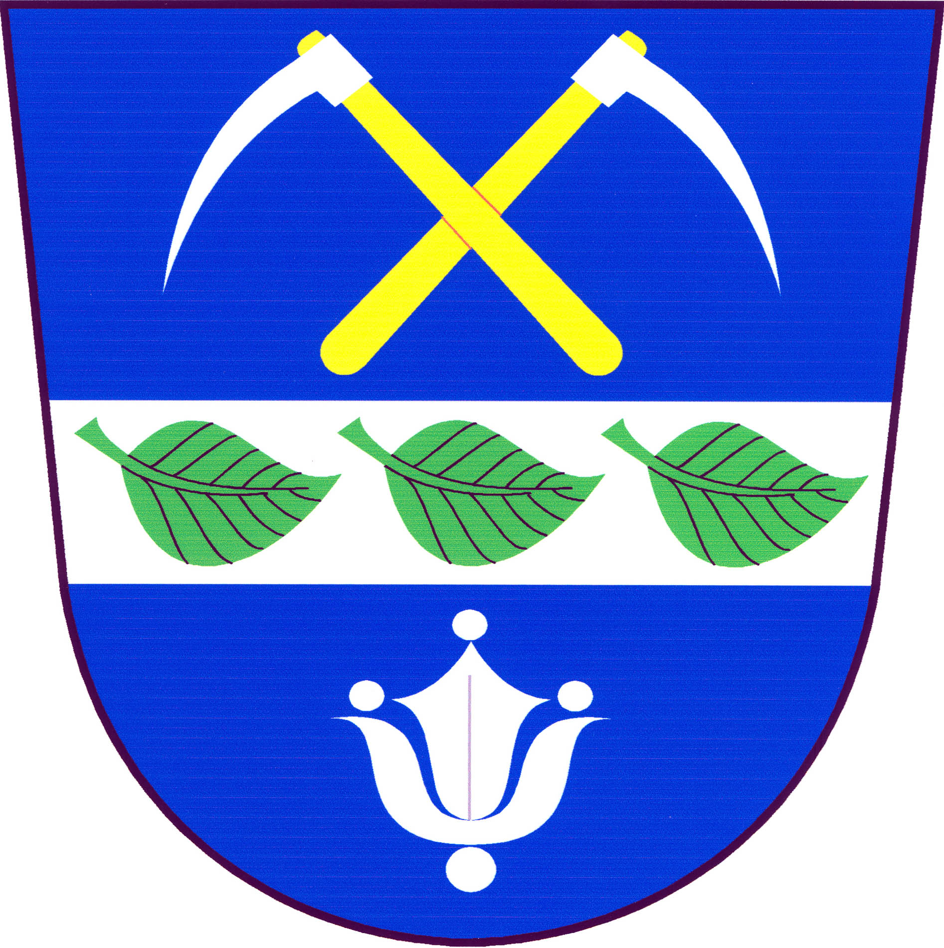 Municipal coat of arms of Buková village, Prostějov District, Czech Republic.